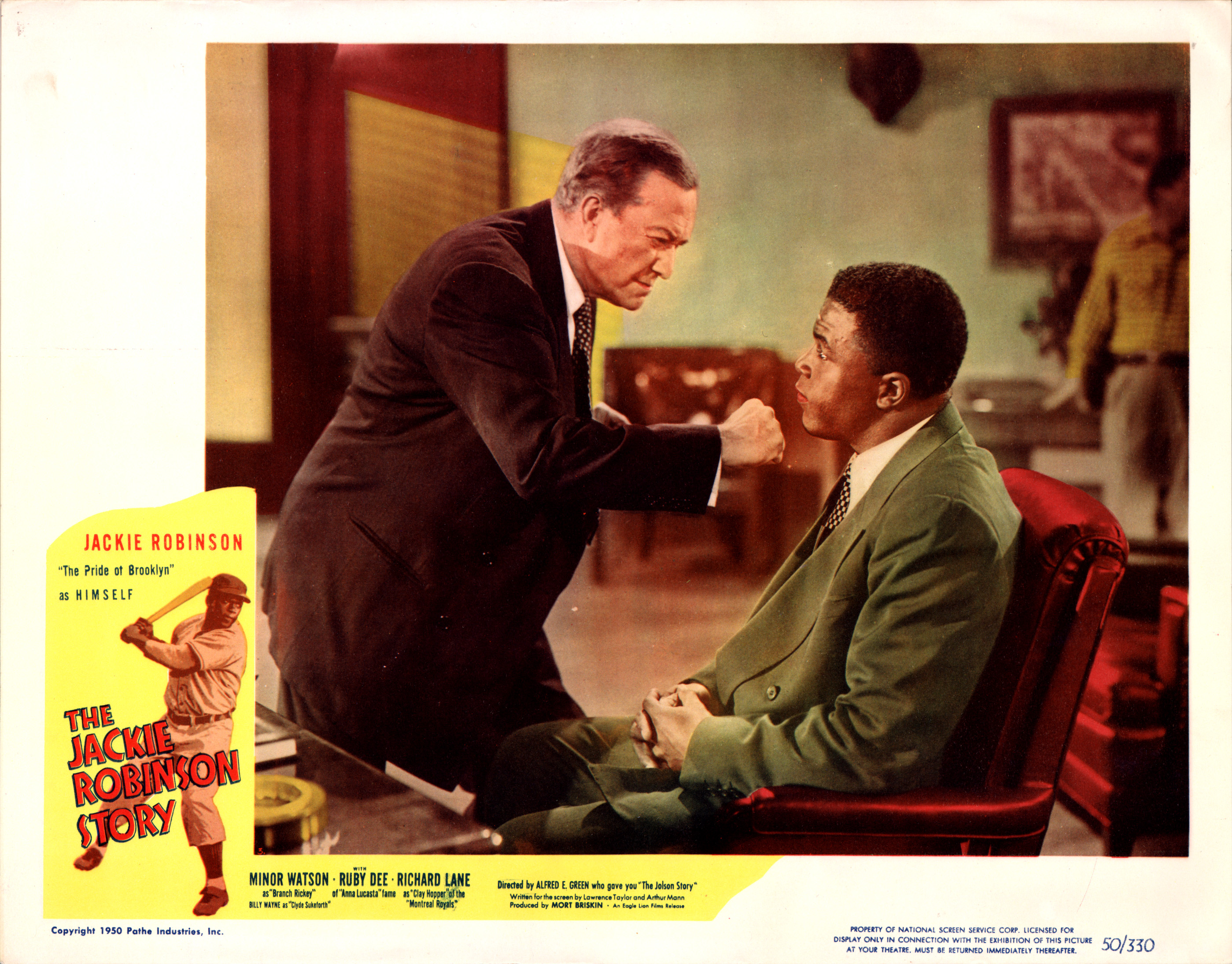 Lobby card promoting The Jackie Robinson Story, showing Minor Watson (as Dodgers president Branch Rickey) and Jackie Robinson (as himself)]